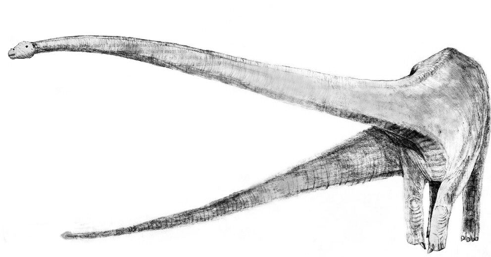 Sketch of a Mamenchisaurus hochuanensis. Its remarkably long neck is visible.